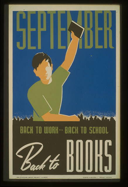 Poster for WPA Statewide Library Project, showing a boy holding a book in his raised hand.